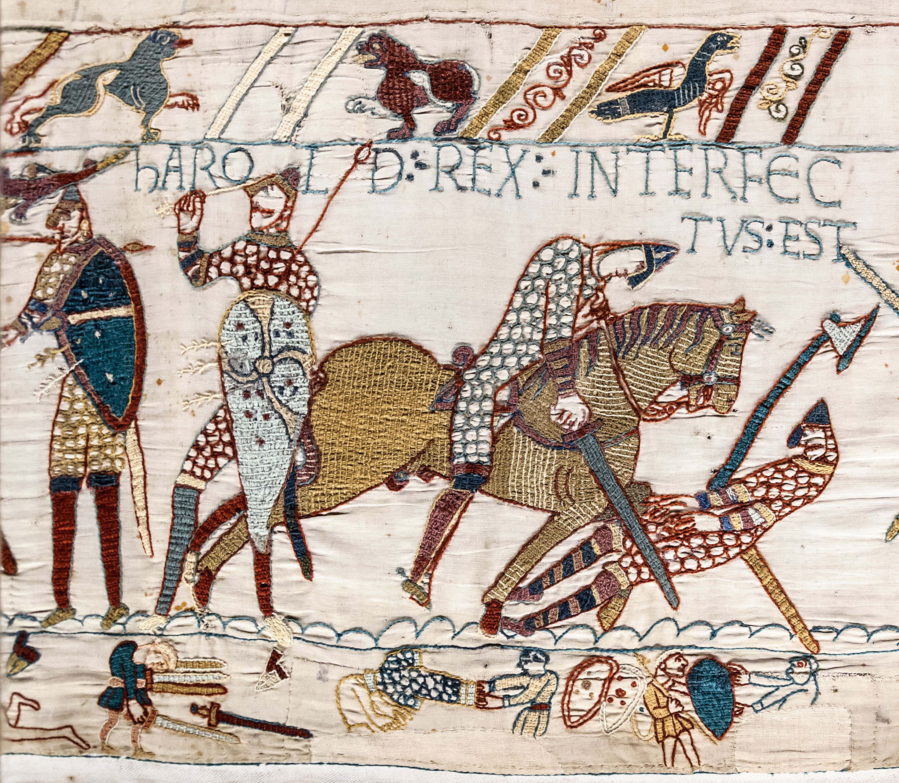 Bayeux Tapestry - Scene 57: the death of King Harold at the Battle of Hastings. Titulus: HIC HAROLD REX INTERFECTUS EST (Here King Harold is slain)